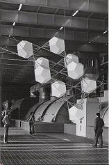 Monumental Polyhedral Net Structure